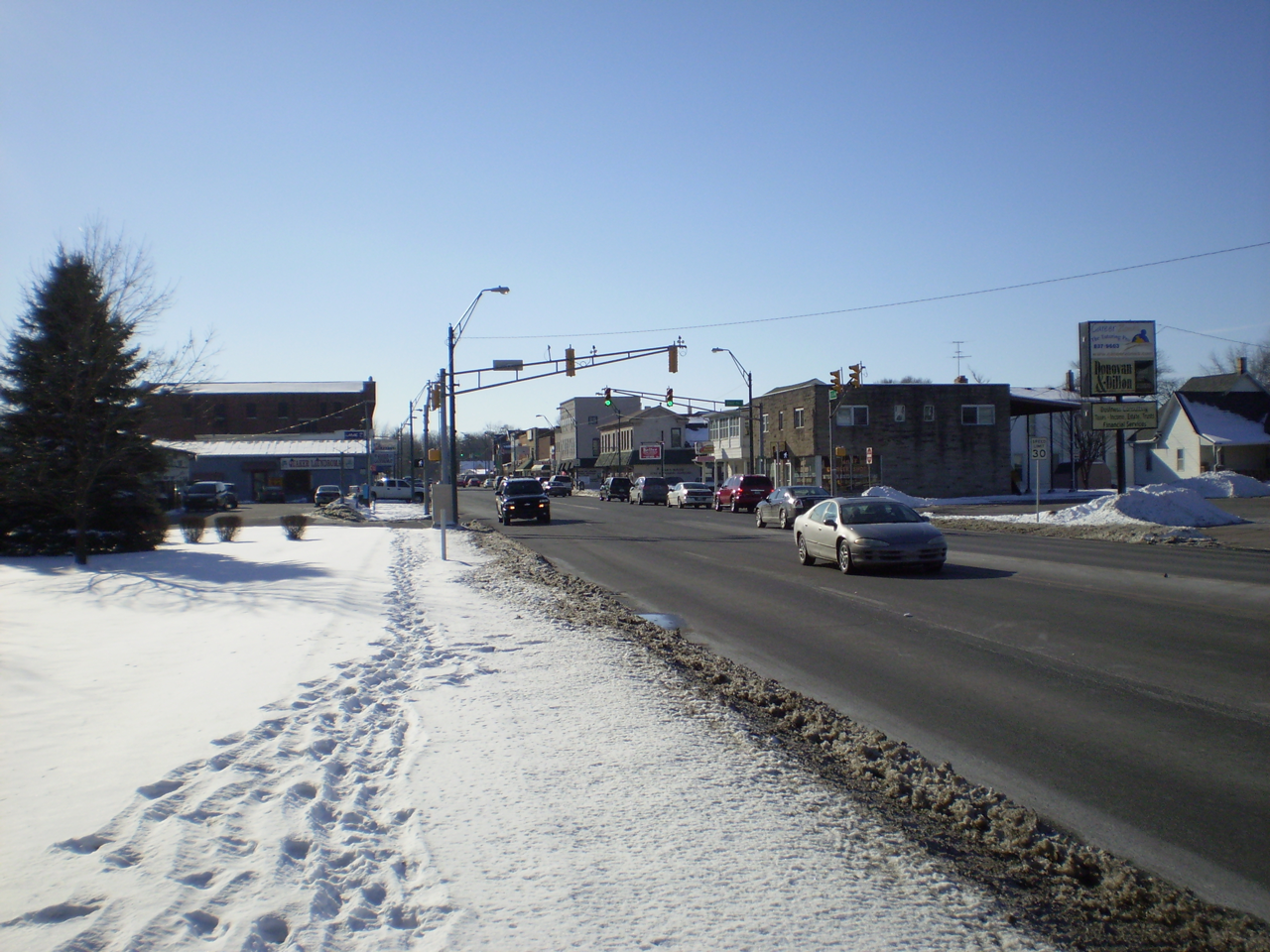 Downtown Plainfield, Indiana, Main Street and Vine Street